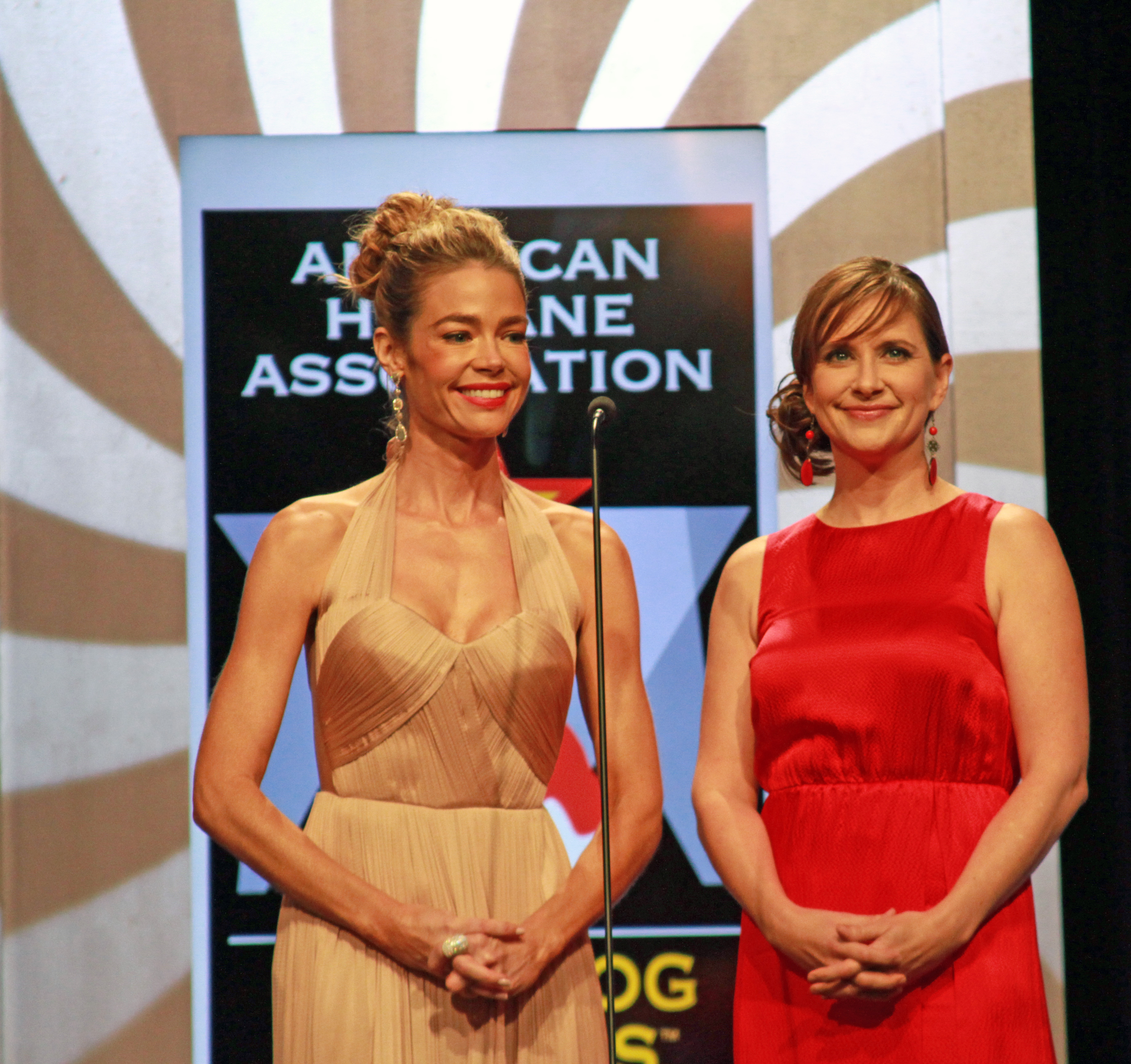 Denise Richards and Kellie Martin at the American Humane Association 2012 Hero Dog Awards.